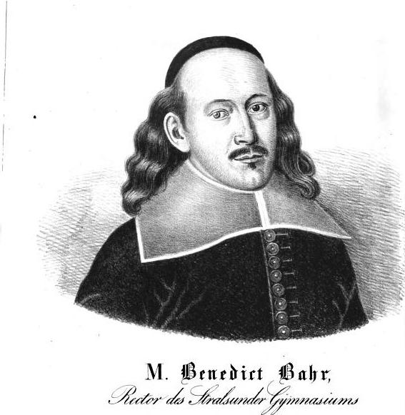 Benedikt Bahr